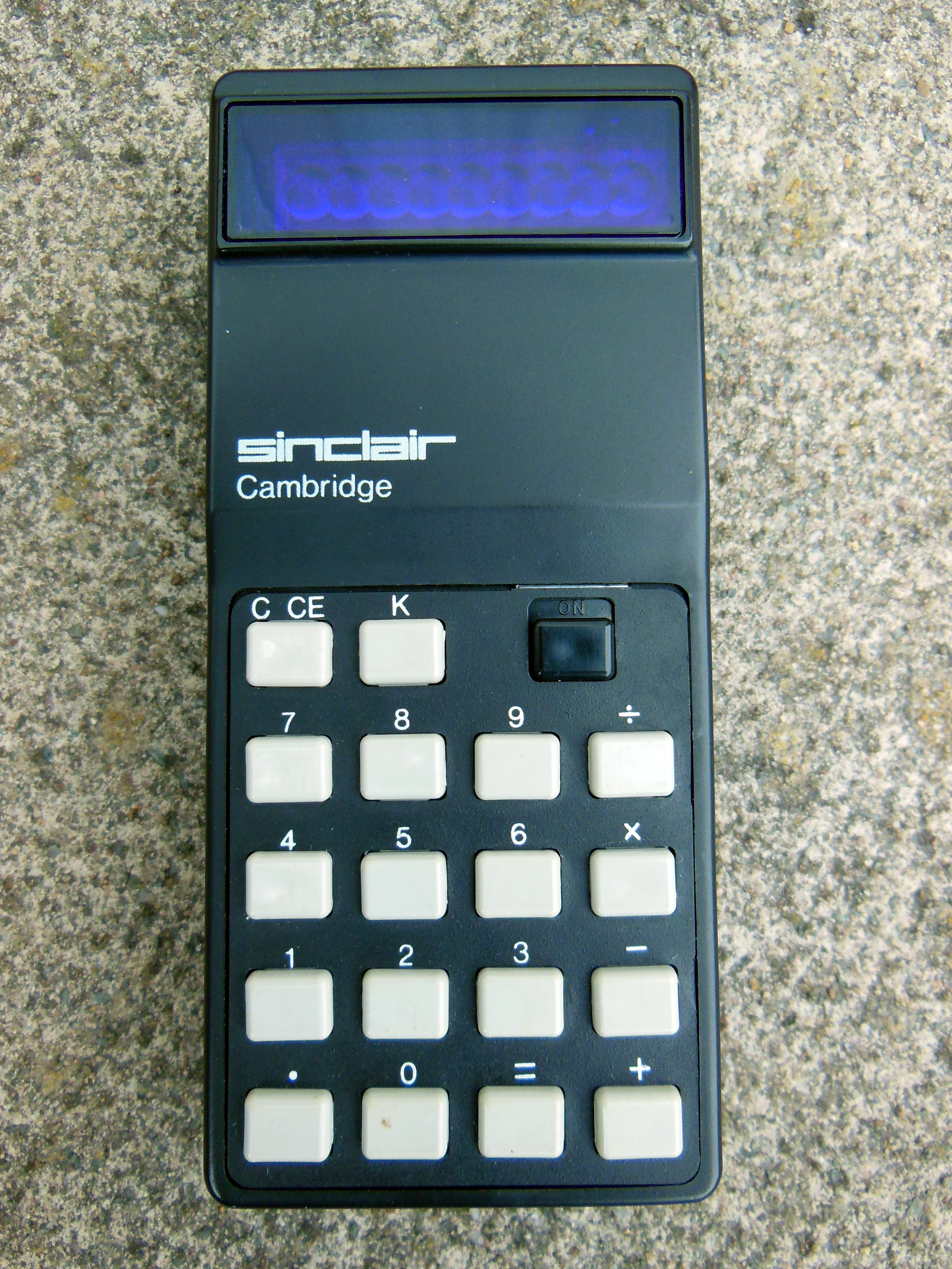 Sinclair Cambridge pocket calculator 1973